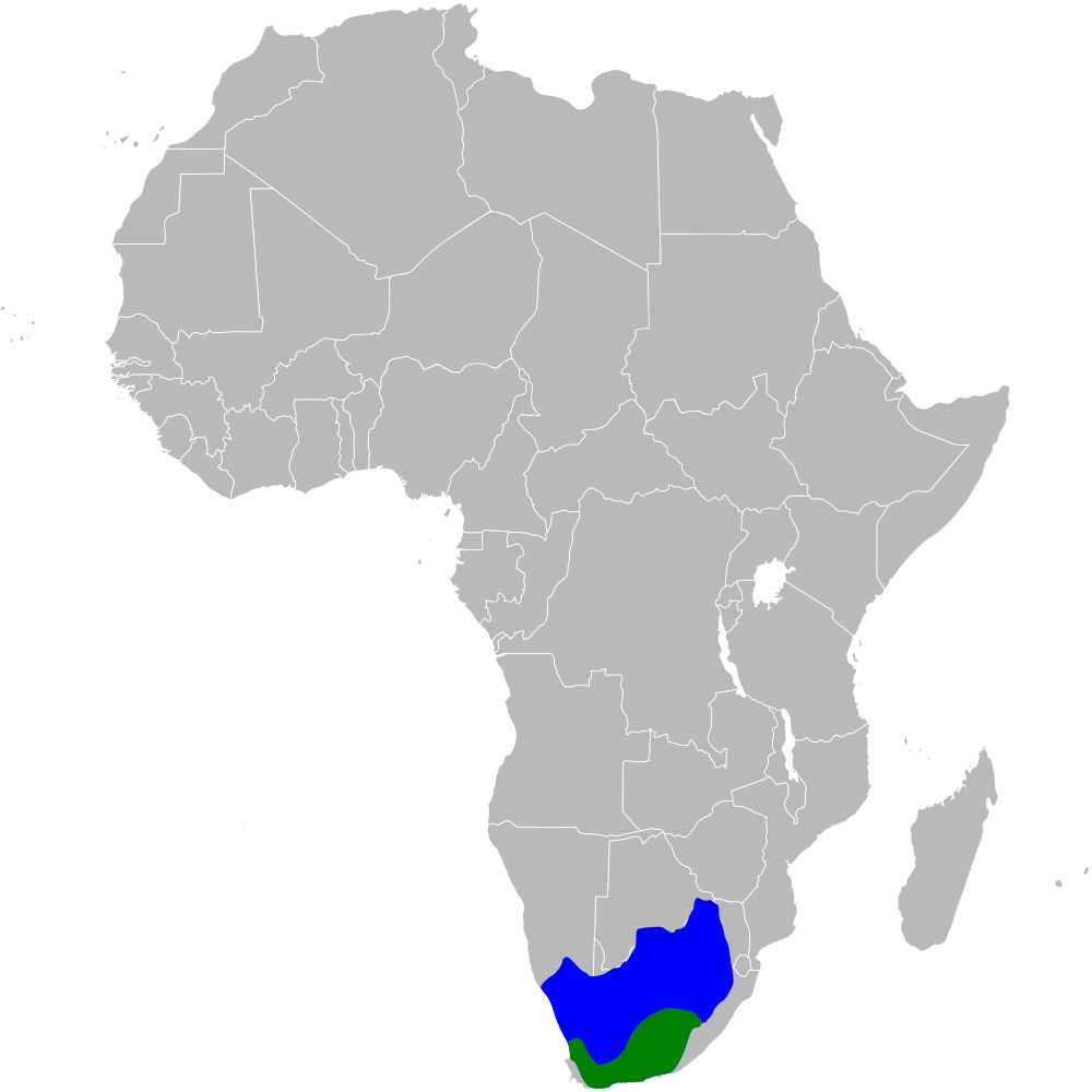 Stenostira scita distribution map; using BlankMap-Africa.svg, based on - Derived from